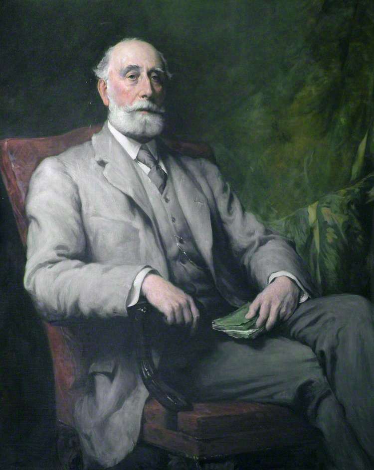 William Ogilvy Dalgleish of Errol Park (1832–1913) oil on canvas 127 x 100 cm 1911